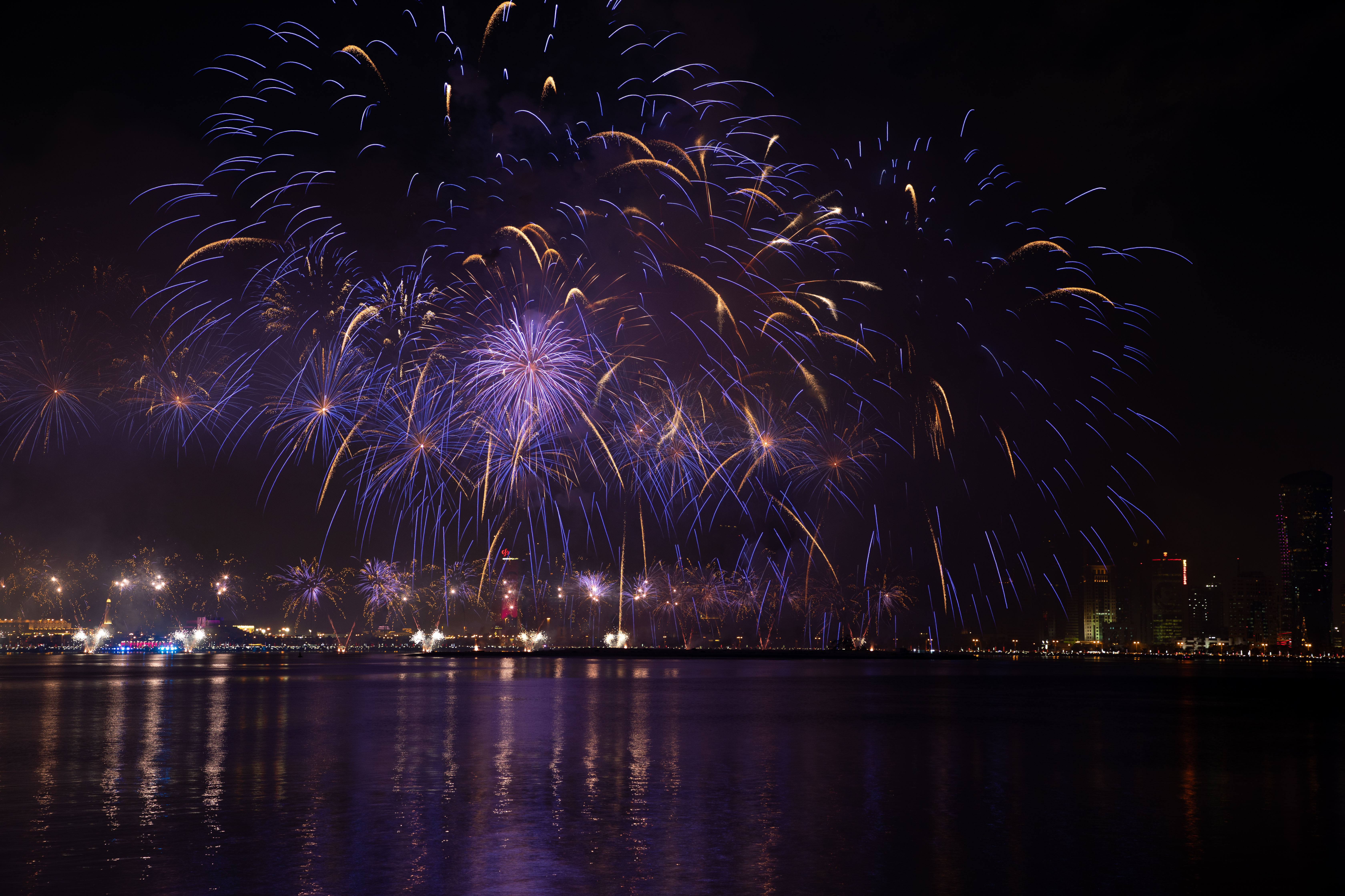 Fireworks on Qatar National Day 2018 in Doha by Ijas Muhammed Photography